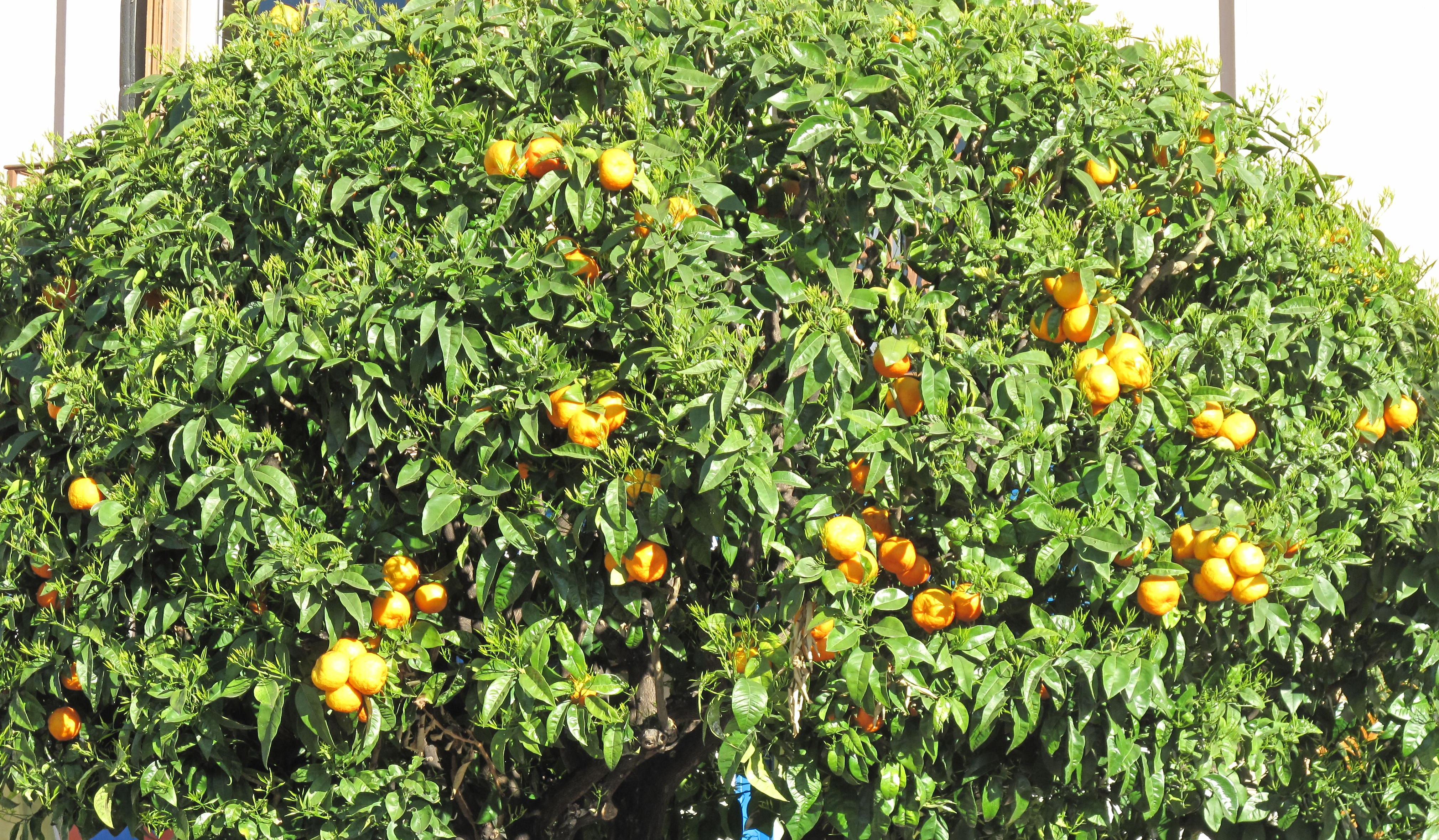 Citrus sinensis: Orange tree in in Southern France (cropped).